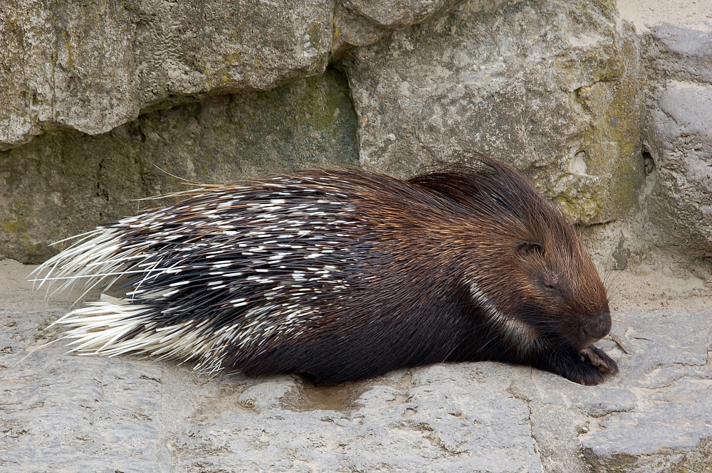 Hystrix leucura, Zoological Garden Berlin, Germany